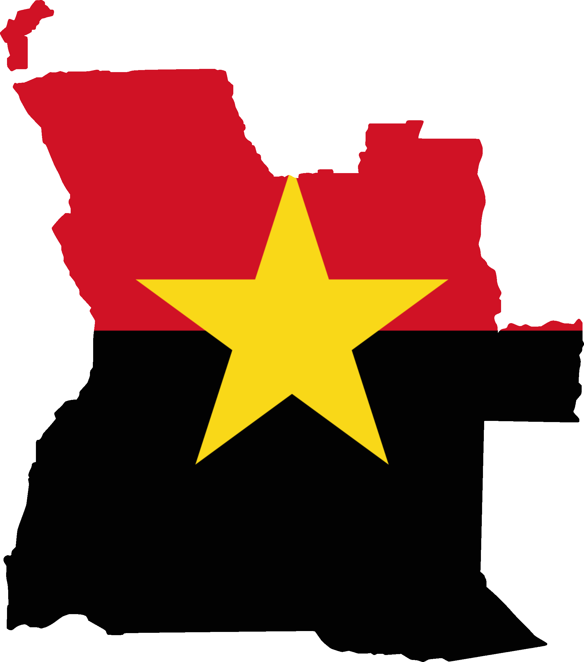 Flag map of Angola (MPLA)